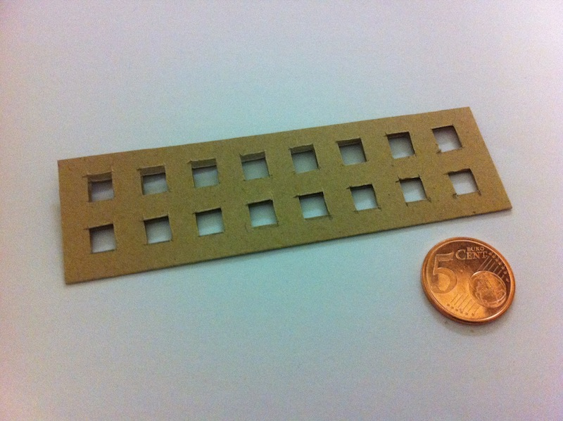 Reconstruction of a nyctograph, a device invented by Lewis Carroll in 1891 for transcribing thoughts and dreams during the night without having to leave bed and light a lamp. Cut by Noah Slater from an envelope to Carroll's original specification, with five euro cent coin for size comparison.